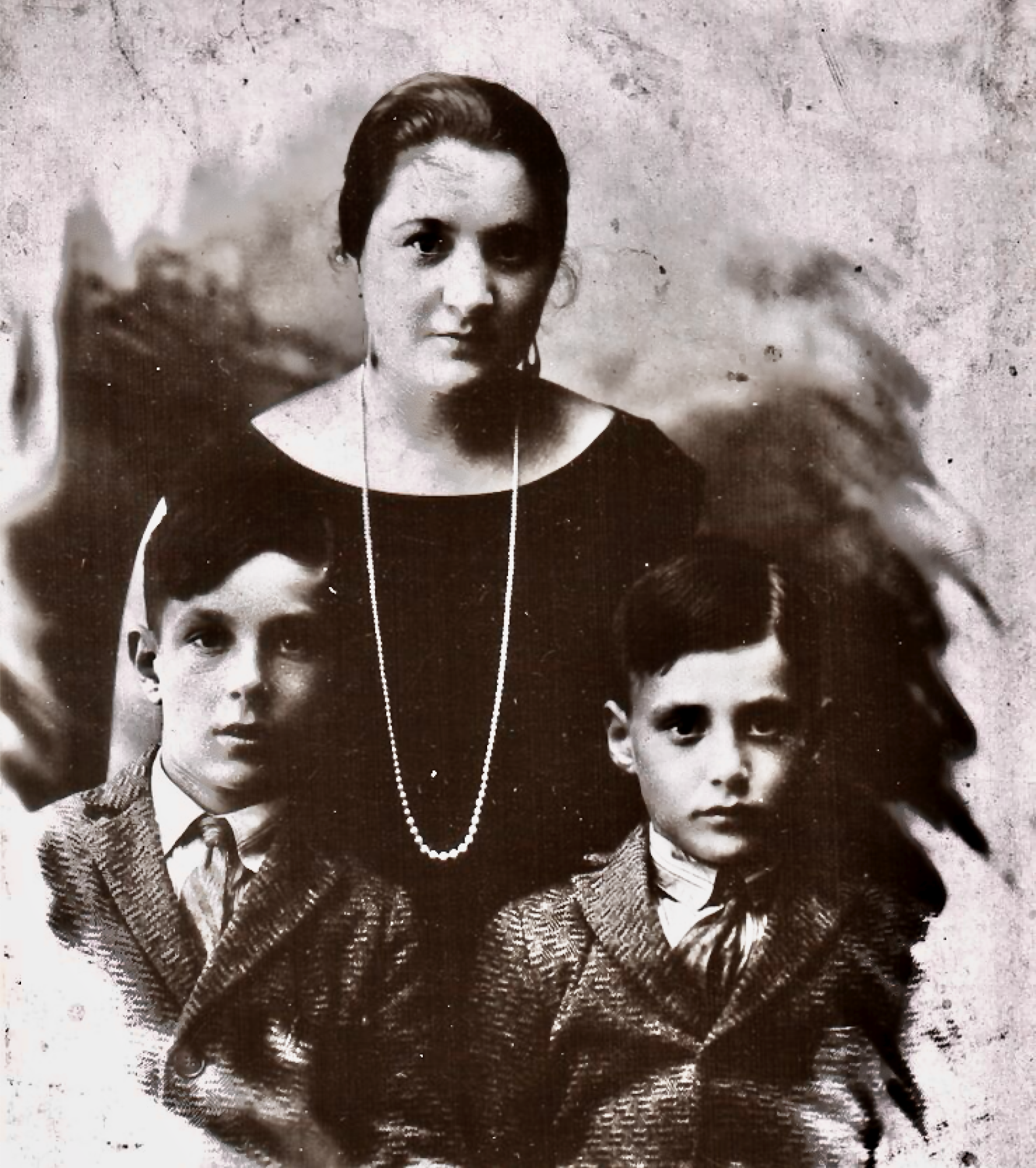 Ida Trakiner-Saviekienė with her sons algirdas (left) and Augustinas (right) in the Finnish capital Helsinki around 1927.